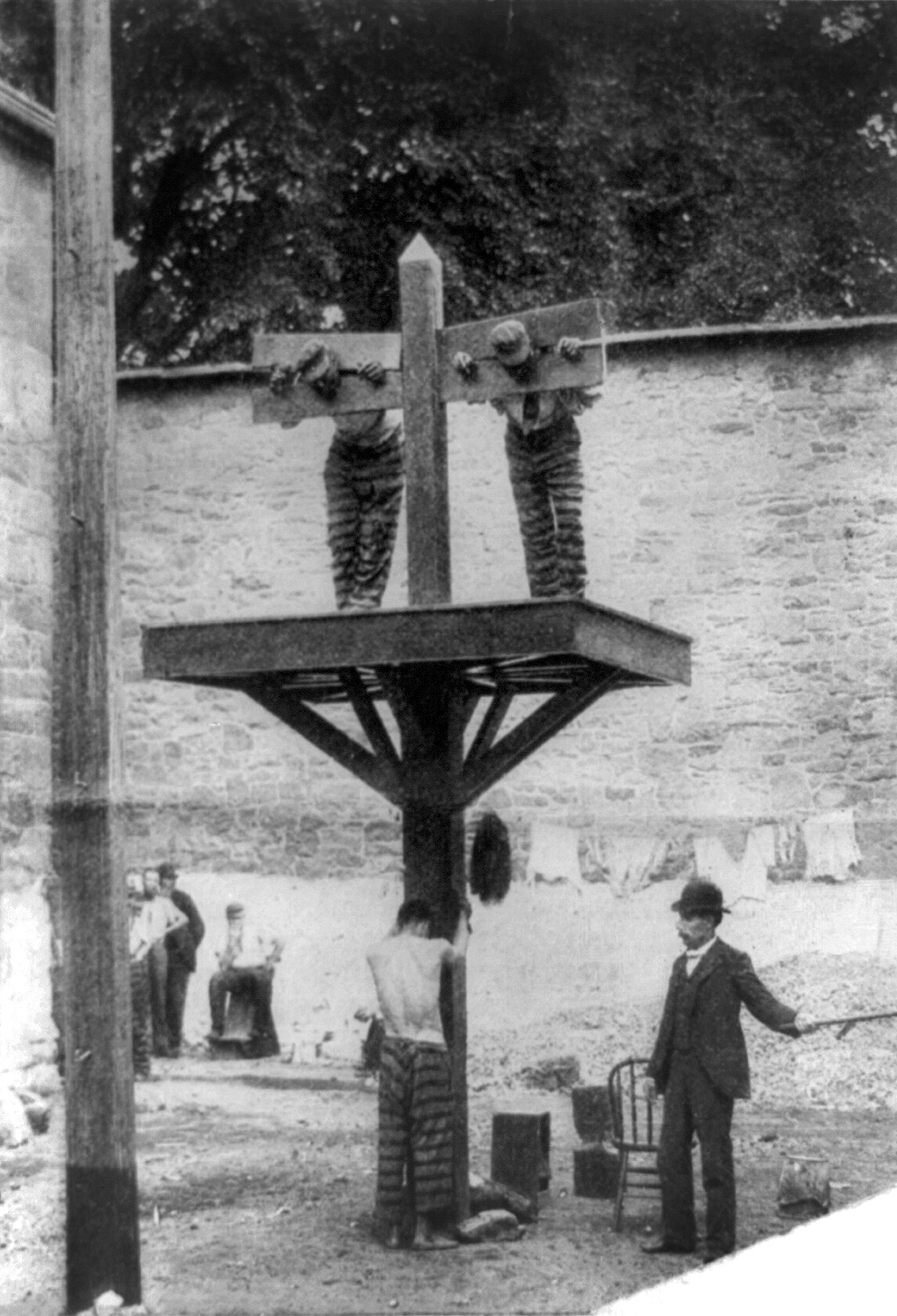 Two prisoners in pillory with another tied to whipping post below and man with whip in prison in Delaware.